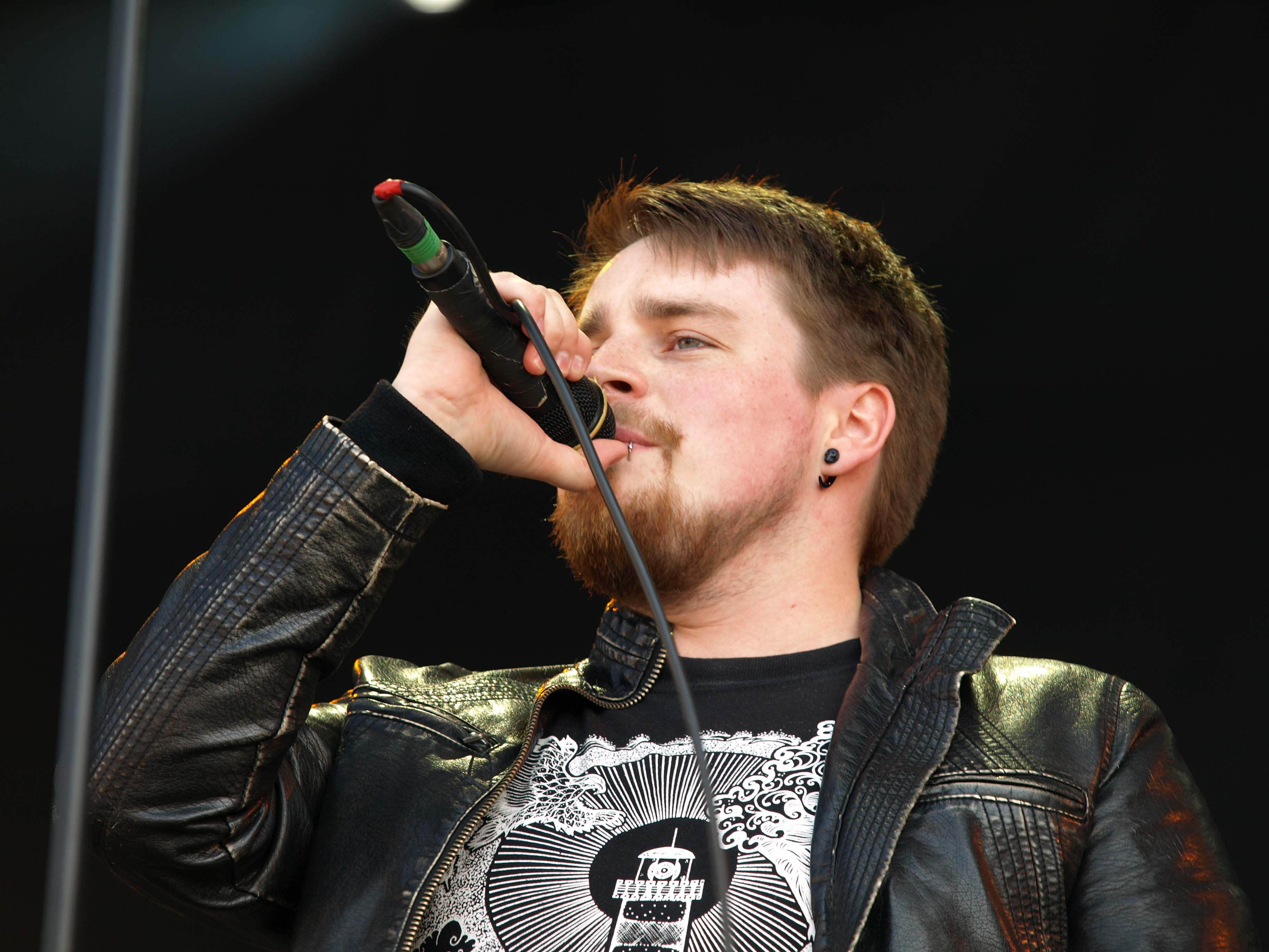 British band TesseractT live at Tuska Open Air 2013